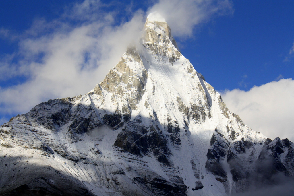 Mt. Shiva